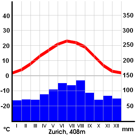 Climate diagram for Zurich, Switzerland. Max temperature, average rainfall in mm. Data from Climatedata.eu software from Klimagramm